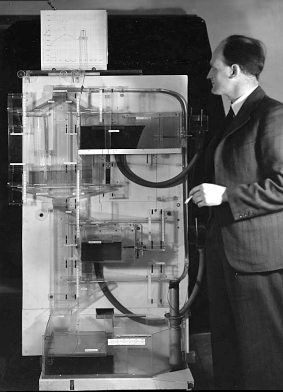 Captioned with "Professor A.W.H (Bill) Phillips with Phillip's Machine." Phillips was an LSE economist known for the Phillips curve and he developed MONIAC, the analog computer, shown here, that modeled economic theory with water flows.